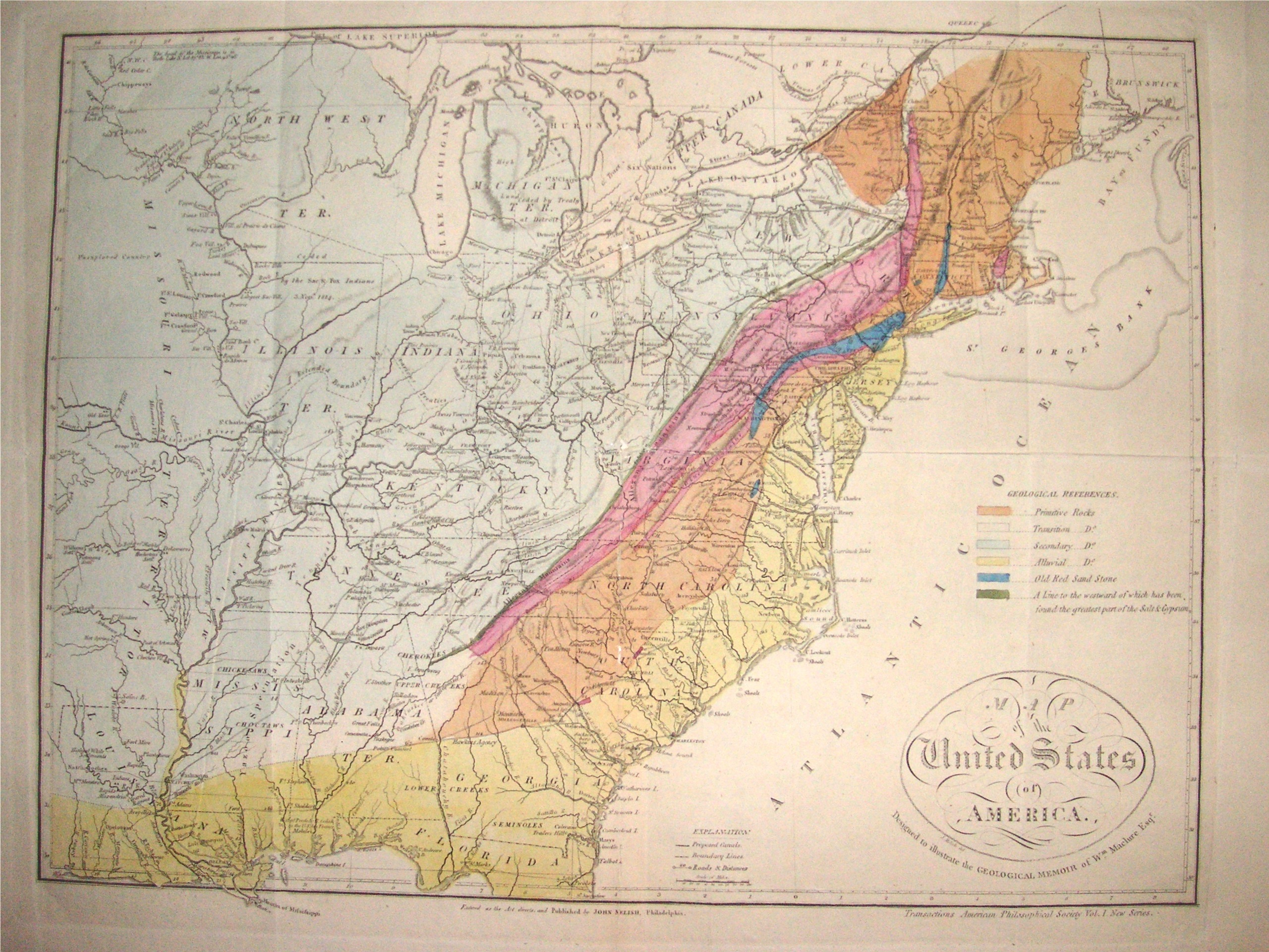 Maclure's 1817 Geological Map of the United States, which accompanied the article 'Observations on the Geology of the United States of North America; With Remarks on the Probable Effects That May Be Produced by the Decomposition of the Different Classes ofRocks on the Nature and Fertility of Soils: Applied to the Different States of the Union,Agreeably to the Accompanying Geological Map' published in Transactions of the American Philosophical Society, New Series, Vol. 1 (1818), pp. 1-91. This is the most common version, which also appeared in a privately published edition of the article, in 1817 and in subsequent reprints of 1822 onwards which have a different base map.